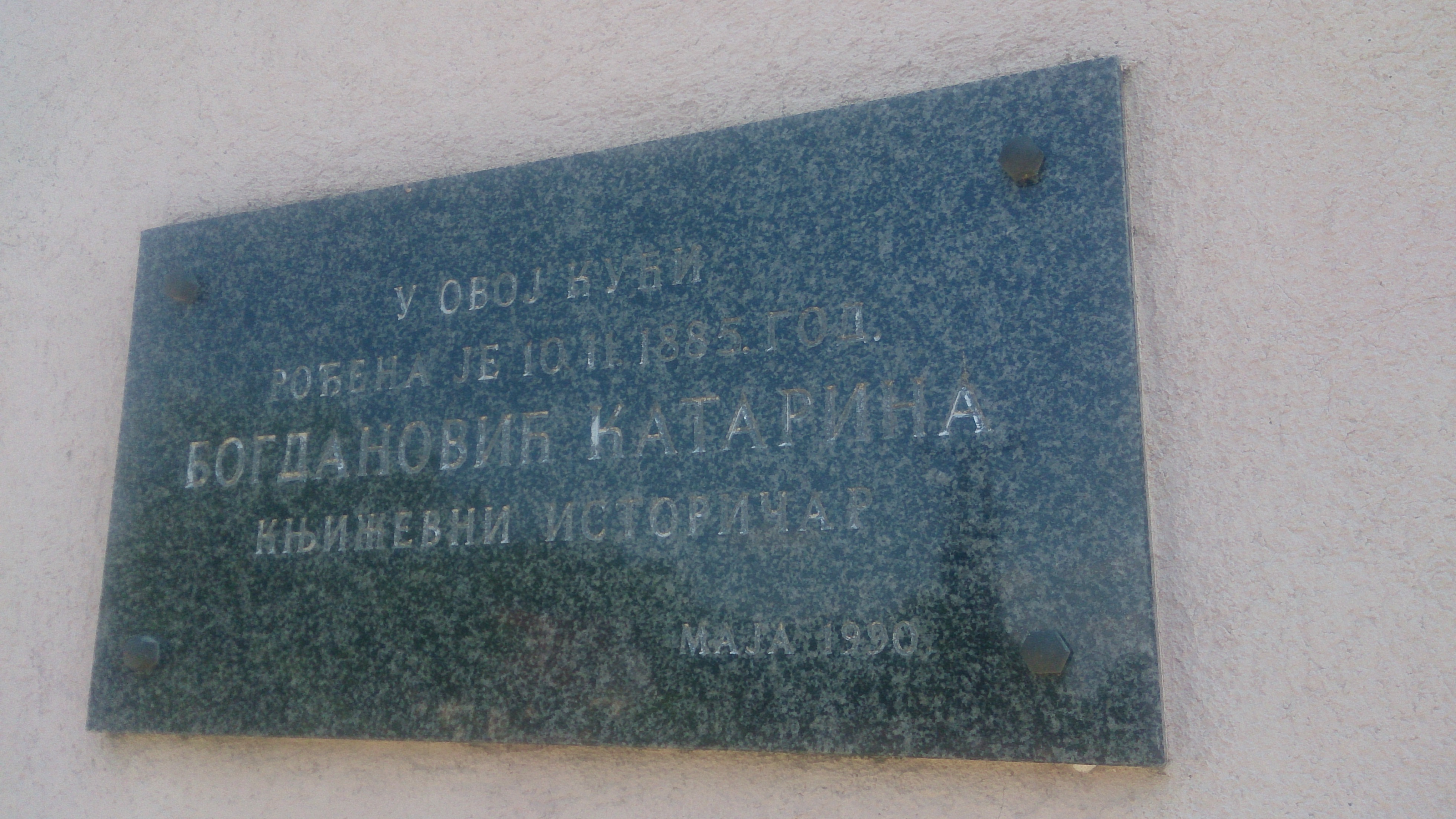 Spomen ploča posvećena Katarini Bogdanović na njenoj rodnoj kući u Trpinji